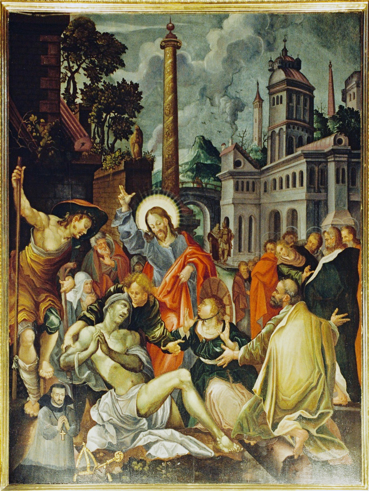 Auferweckung des Lazarus, Gemälde von Hans Bär im Freibnurger Münster